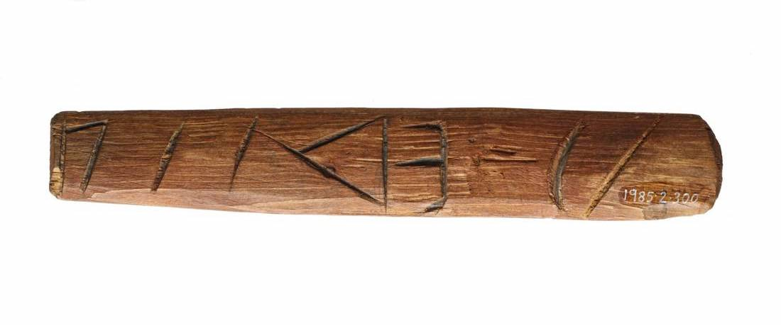 This is an image of an Australian Indigenous message stick held in the National Museum of Australia. It is a secular, non-restricted image from the Horne-Bowie collection with the accession number 1985.0002.0300